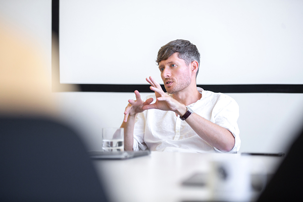 Robin Carhart-Harris during meeting at the Centre for Psychedelic Research. Imperial Centre for Psychedelic Research, London. Photograph by Thomas Angus, Imperial College London.